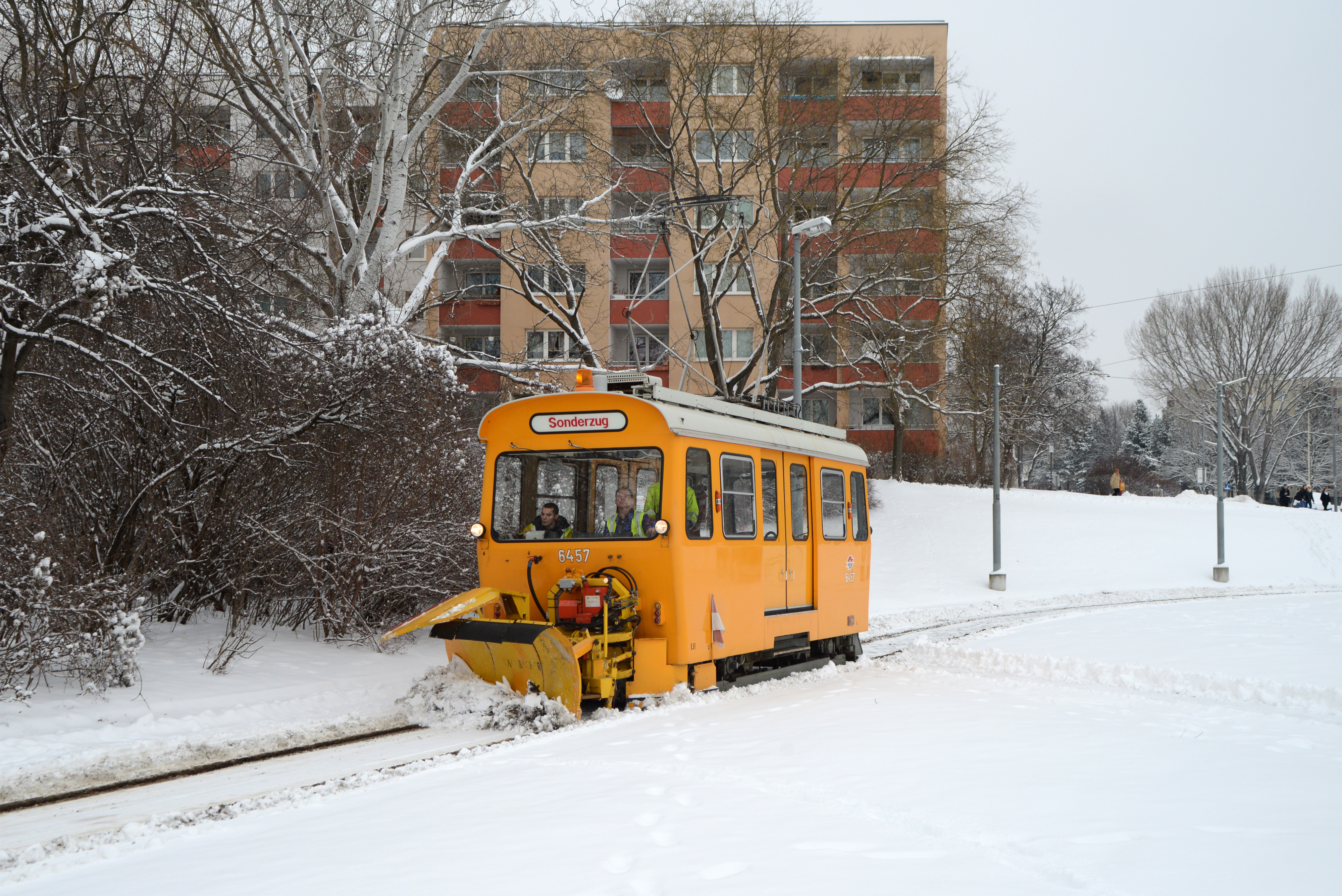 Tram snowplough LH 6457, Tram loop Per-Albin-Hansson-Siedlung-Ost